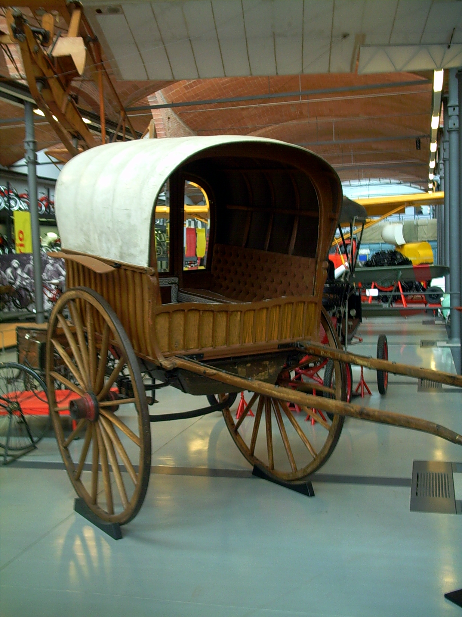 Catalan covered wagon, known as Tartana catalana, or Lira catalana, from the 19th century, at the mNATEC, Terrassa, (Catalunya).